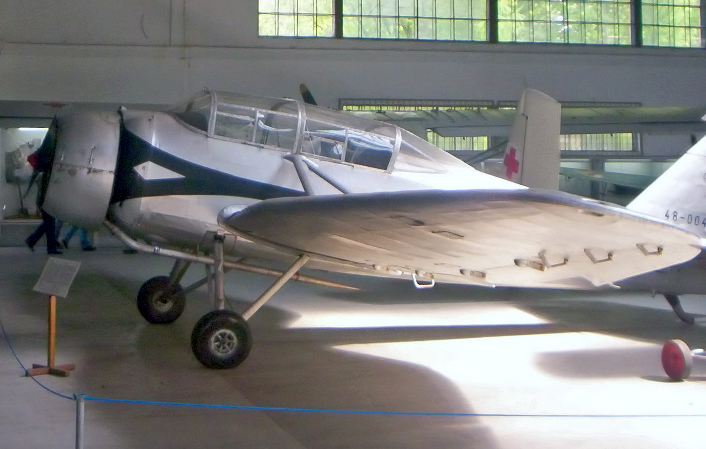 Polish utility aircraft LWD Szpak-4T, markings SP-AAG, Polish Aviation Museum in Kraków